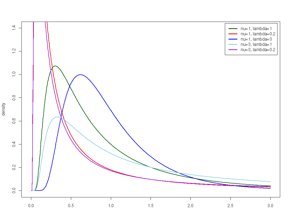 the probability density of some inverese Gaussian distributed random variables